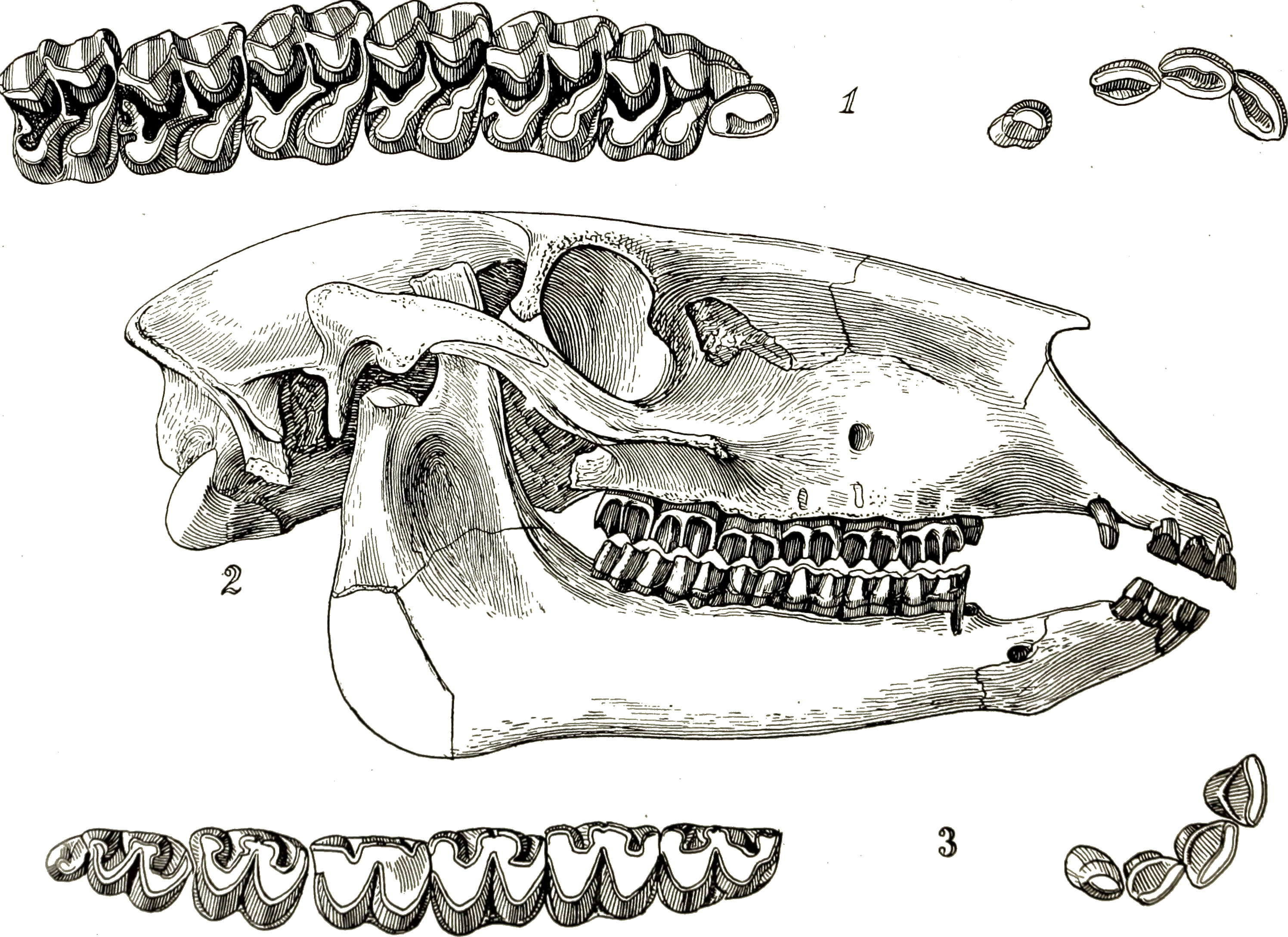 Title: Annals of the Carnegie Museum Year: 1901 (1900s) Authors: Carnegie Museum; Carnegie Museum of Natural History Subjects: Carnegie Museum; Carnegie Museum of Natural History; Natural history Publisher: [Pittsburgh : Published by authority of the Board of Trustees of the Carnegie Institute] Text Appearing Before Image: ' Text Appearing After Image: :r. '■1